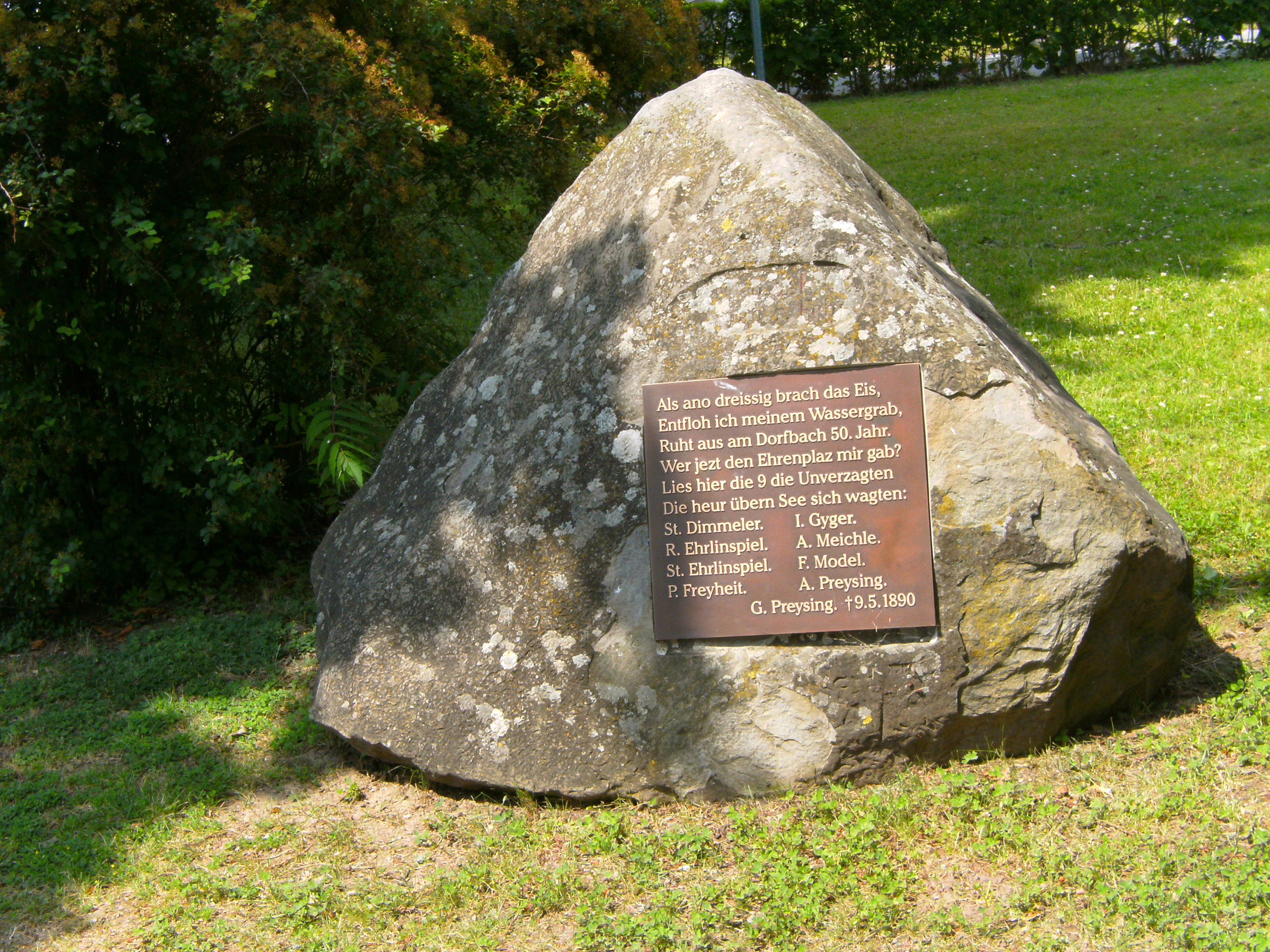 Lake Constance froze in 1880 for a short period. People of Hagnau crossed the frozen lake from Hagnau in Germany to Altnau in Switzerland. Stone in Hagnau in memory for crossing in 1880.